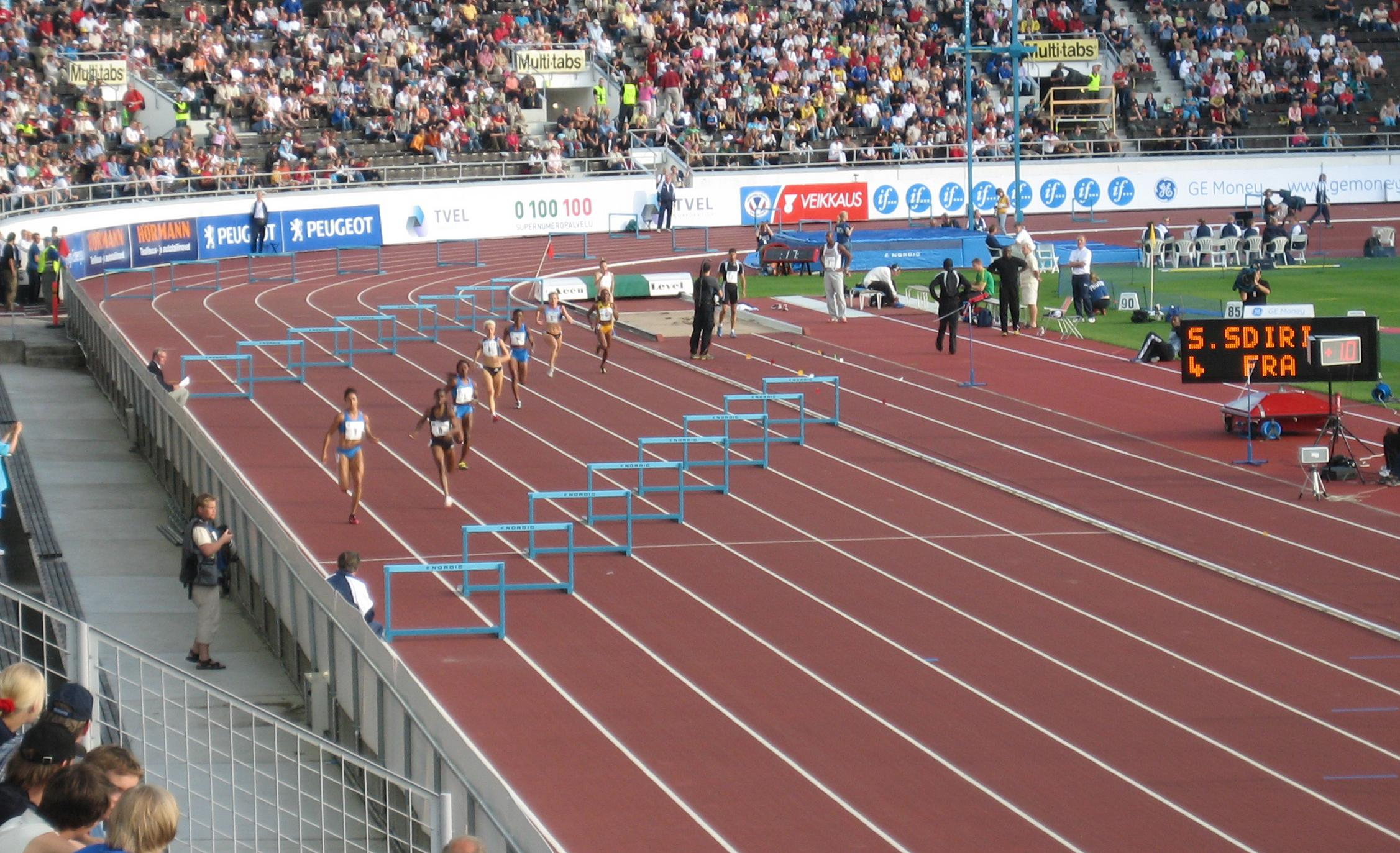 Women's 400 m hurdles at GE Money Grand Prix in Helsinki, Finland.